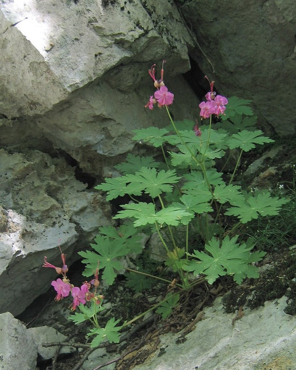 Korenikasta krvomočnica na južnem pobočju Gore nad Ajdovščino.